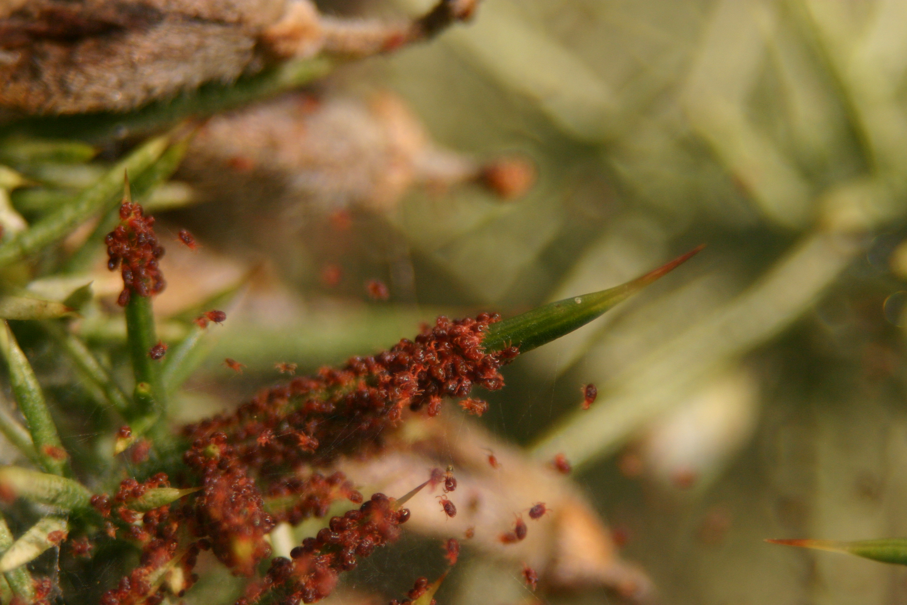 Introduced gorse spider mite on gorse prickle within their protective silk webbing. Wellington, New Zealand.